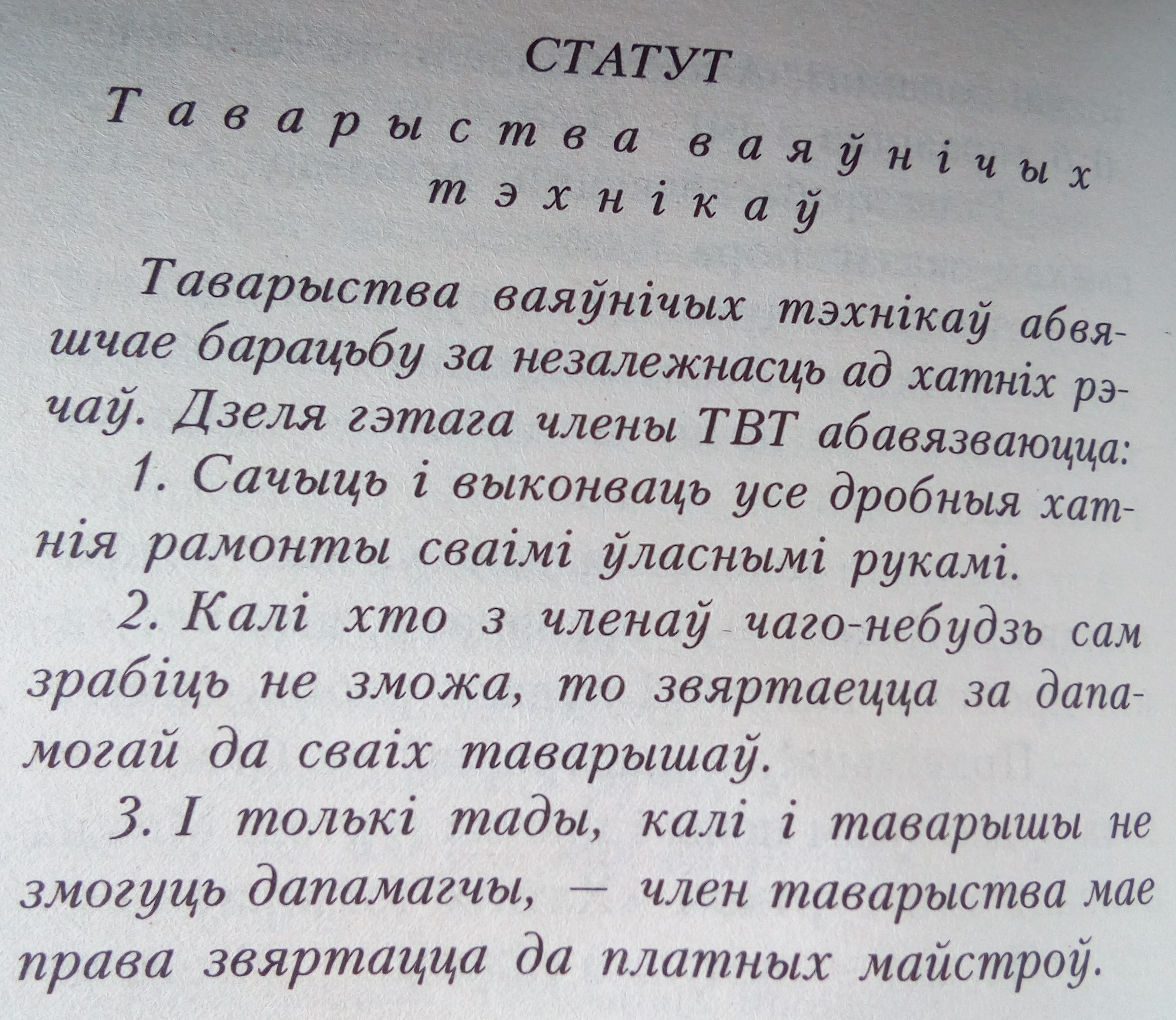 All-focus